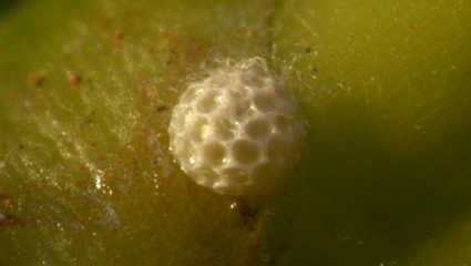 egg possibly of Monkey puzzle Rathinda amor